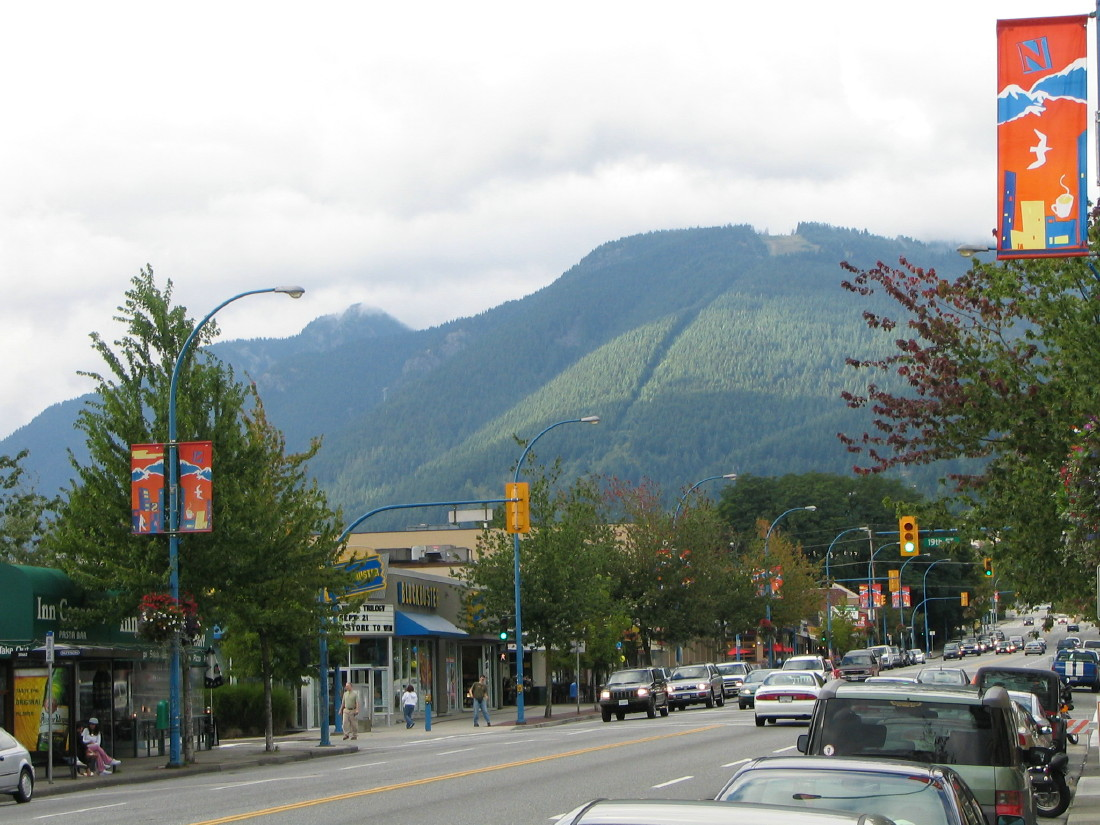 Main thoroughfare Lonsdale Avenue with Grouse Mountain in the background